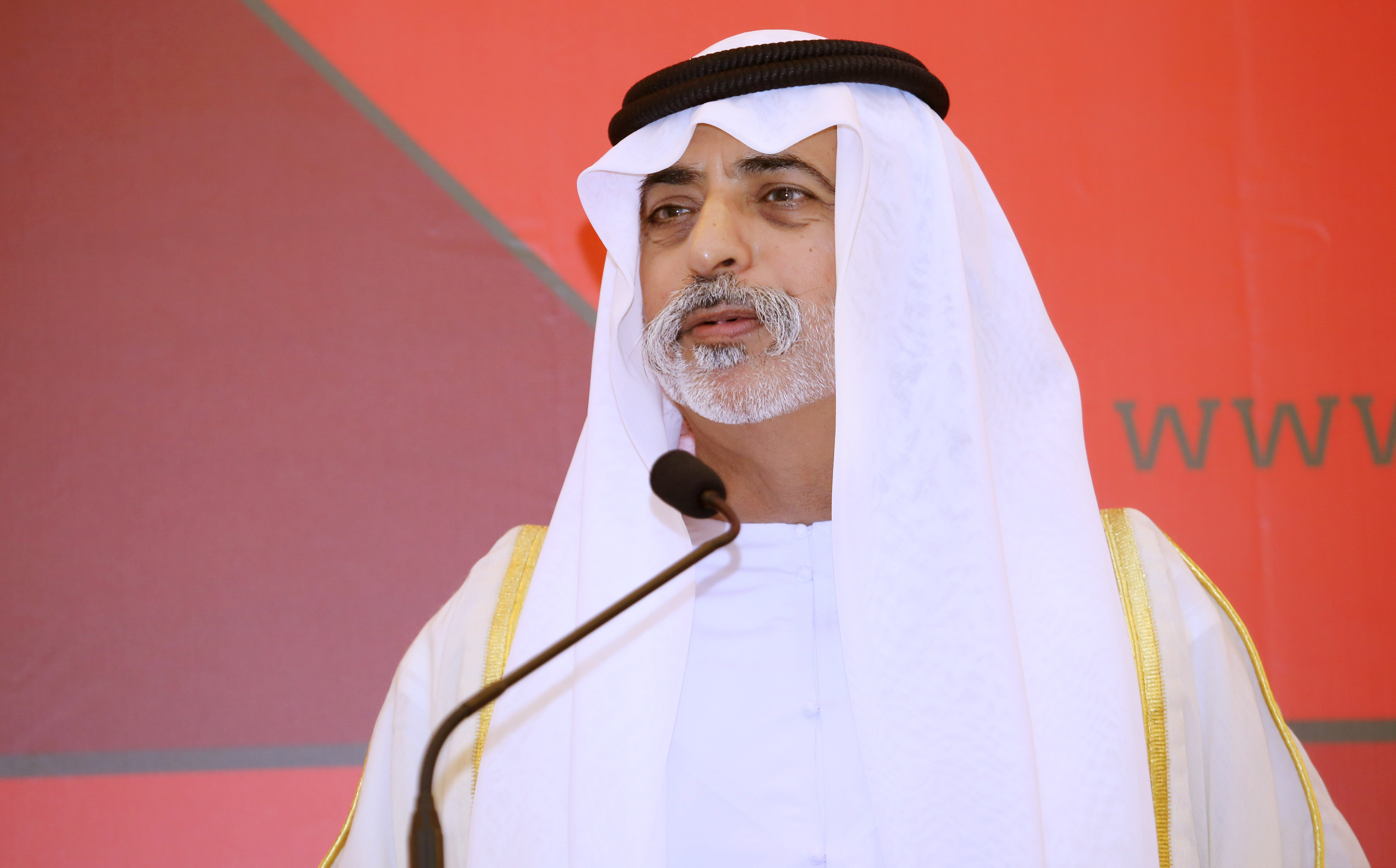 His Highness Sheikh Nahyan Bin Mubarak Al Nahyan presents the keynote address